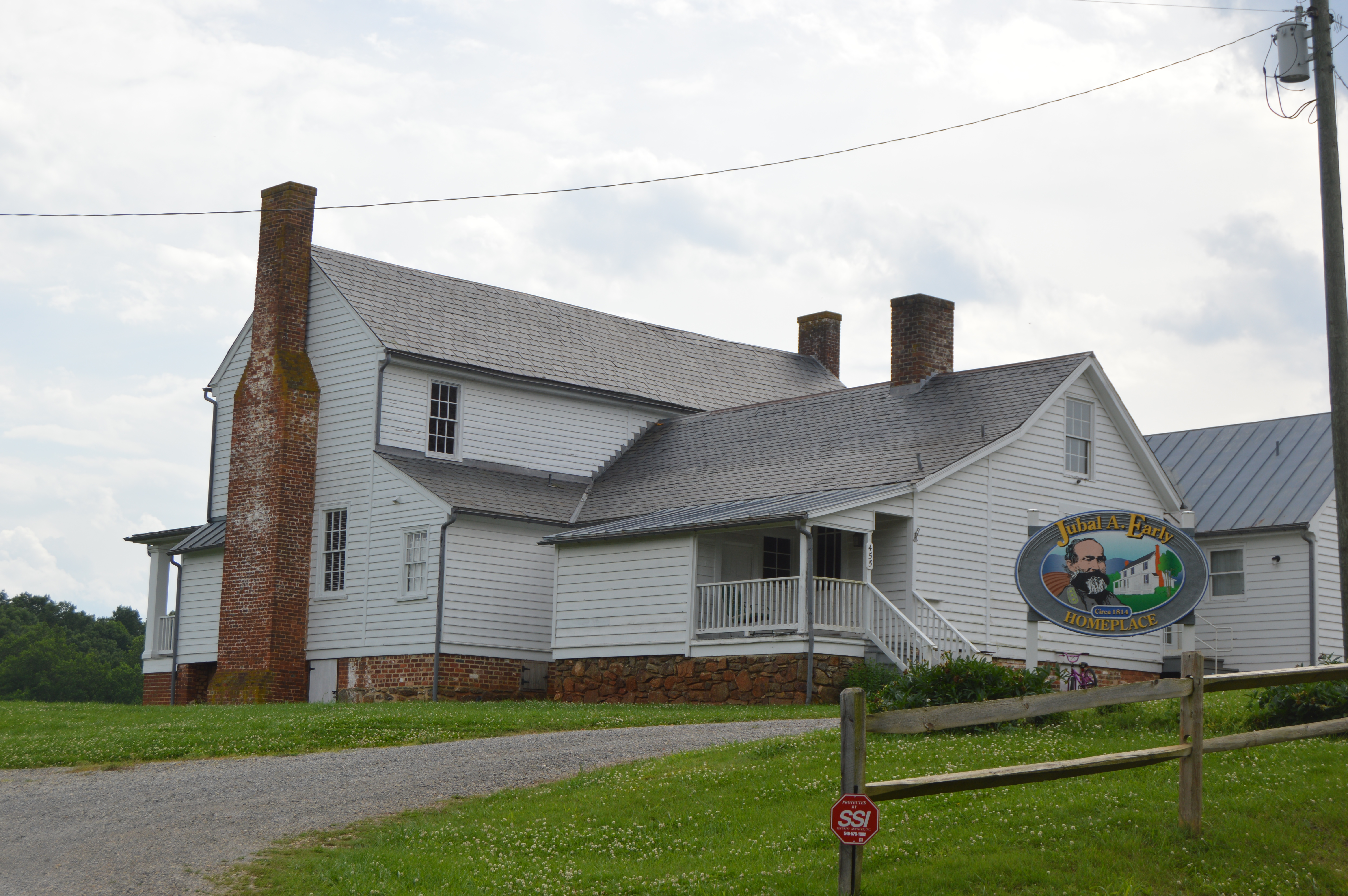 Rear and eastern side of the Jubal A. Early House, located off State Route 116 northeast of Boones Mill in Franklin County, Virginia, United States. The childhood home of Confederate general Jubal Early, it is listed on the National Register of Historic Places.